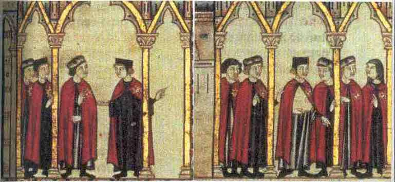 Knight of the Military Order of Saint Mary of Spain, in a miniature from Cantigas de Santa Maria, codex Firenze